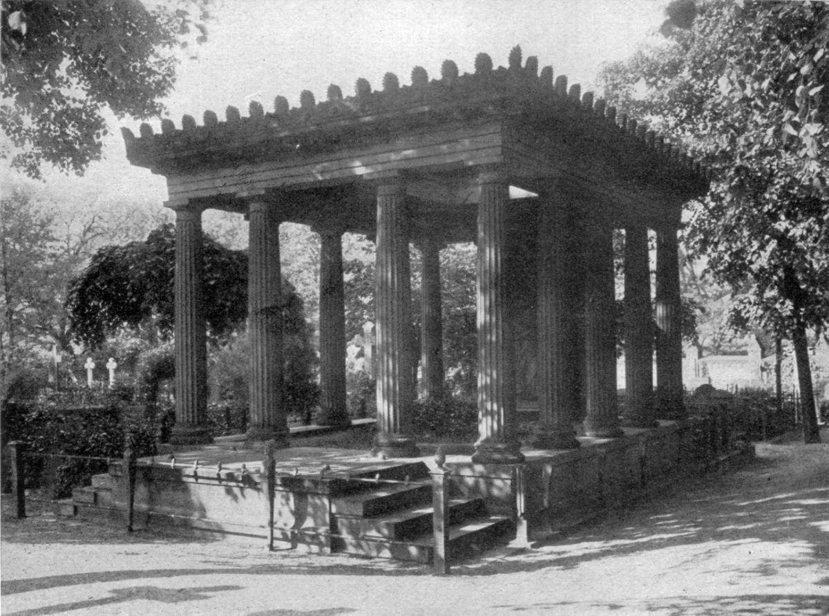 mausoleum of the Carl Rabitz family on Invalidenfriedhof cemetery in Berlin in 1925, destroyed in the 1970s